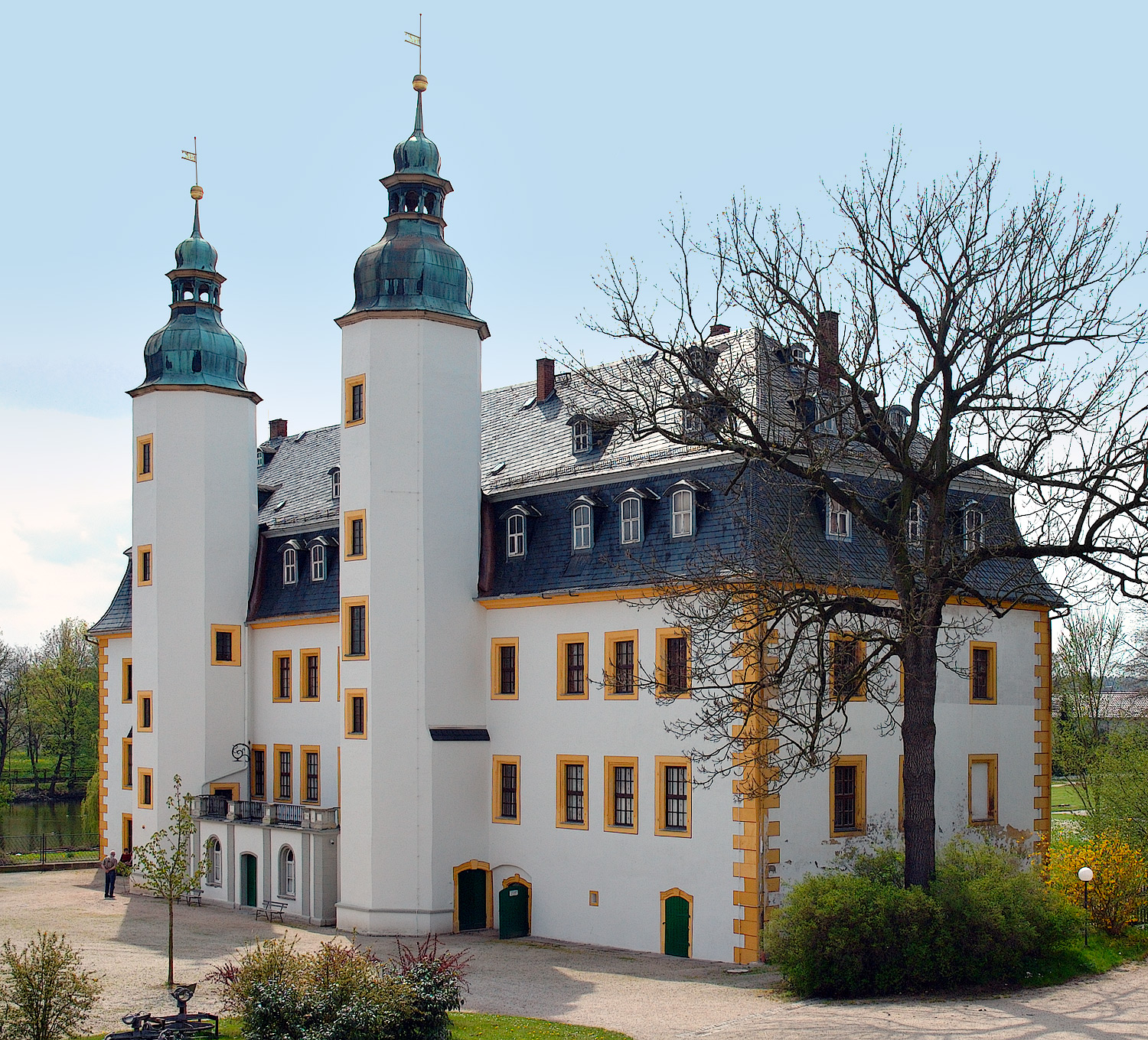 This image shows the main castle of the castle Blankenhain.